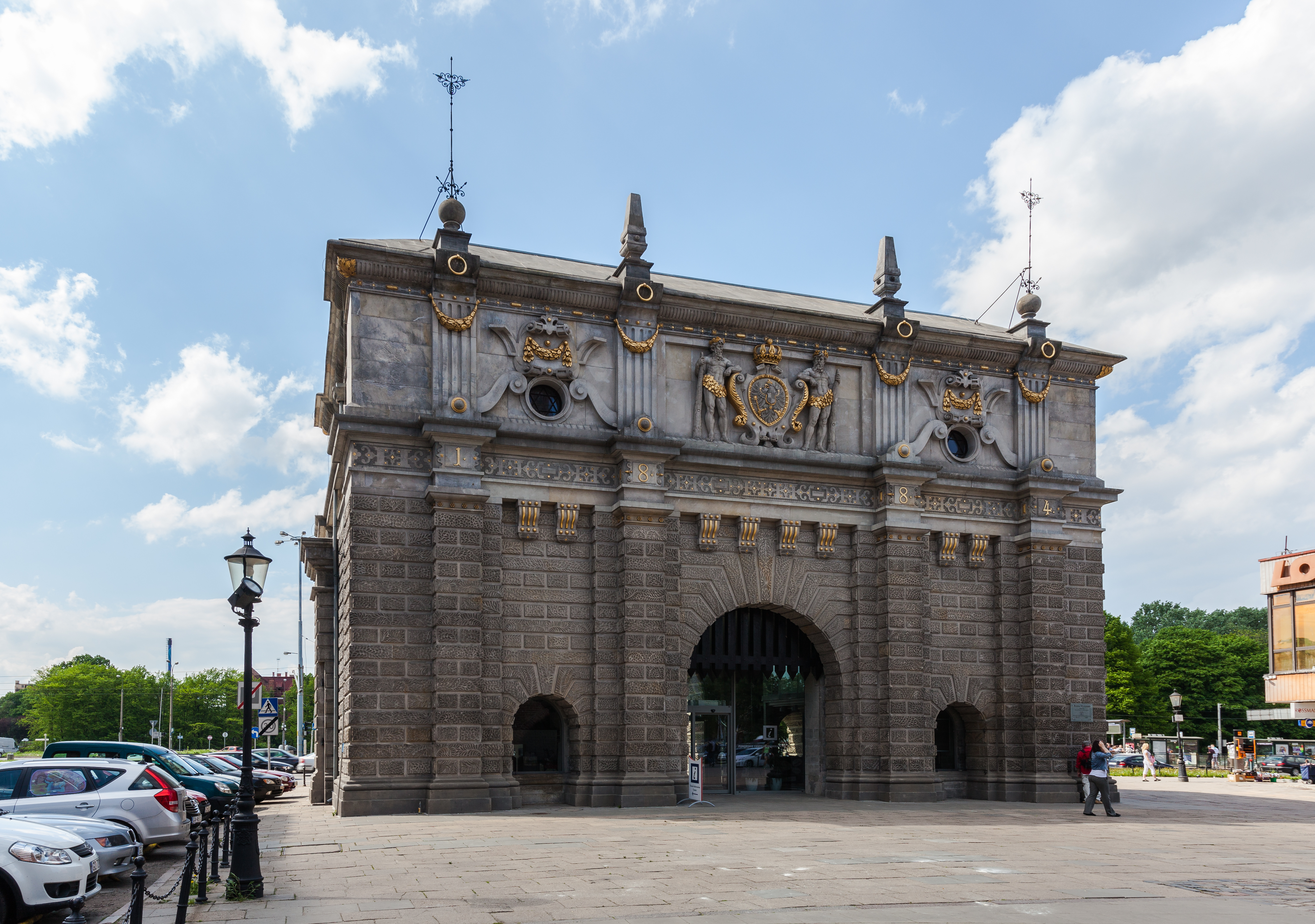 Highland Gate, Gdansk, Poland